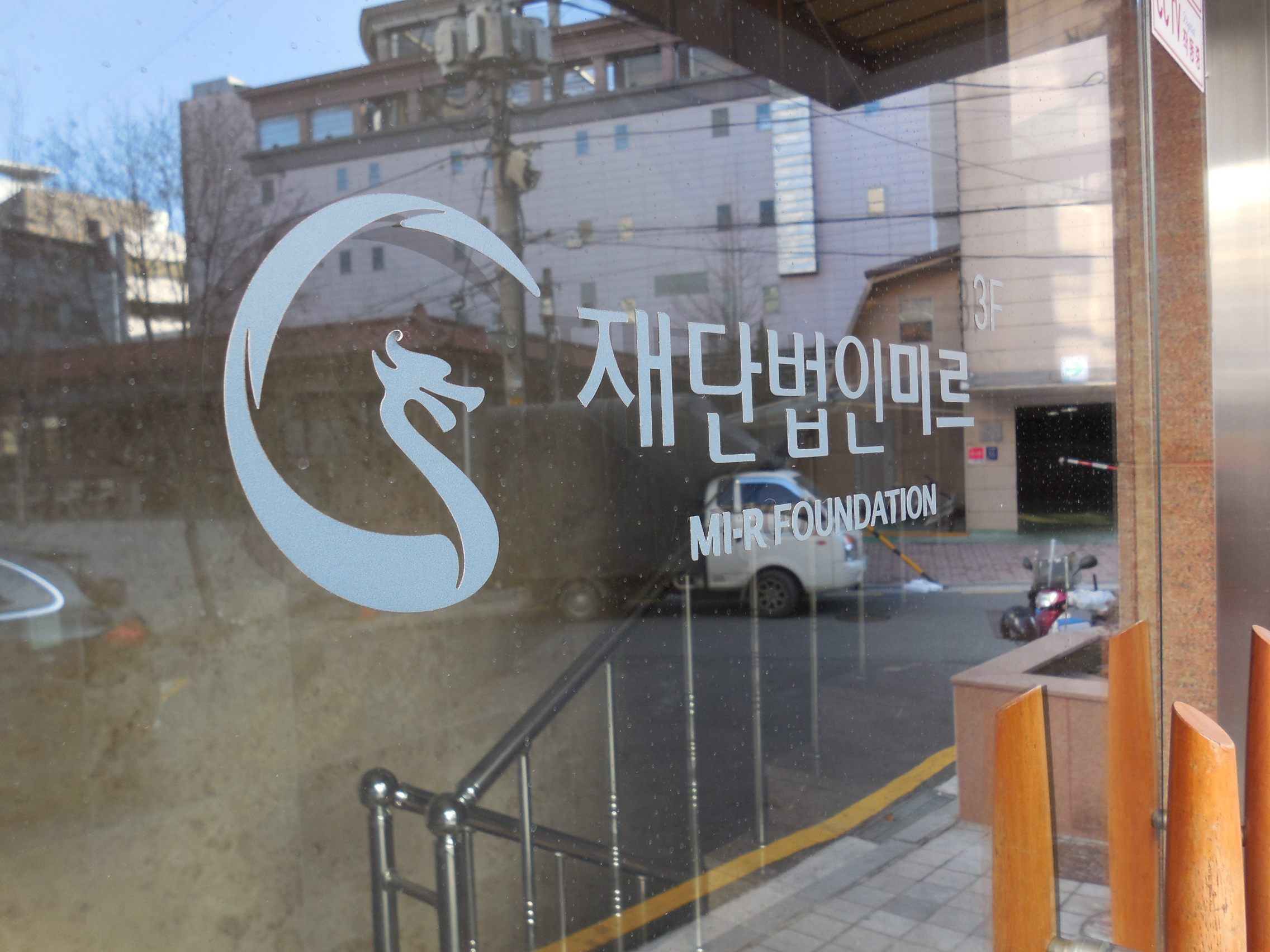 Logo of Mi-r Foundation